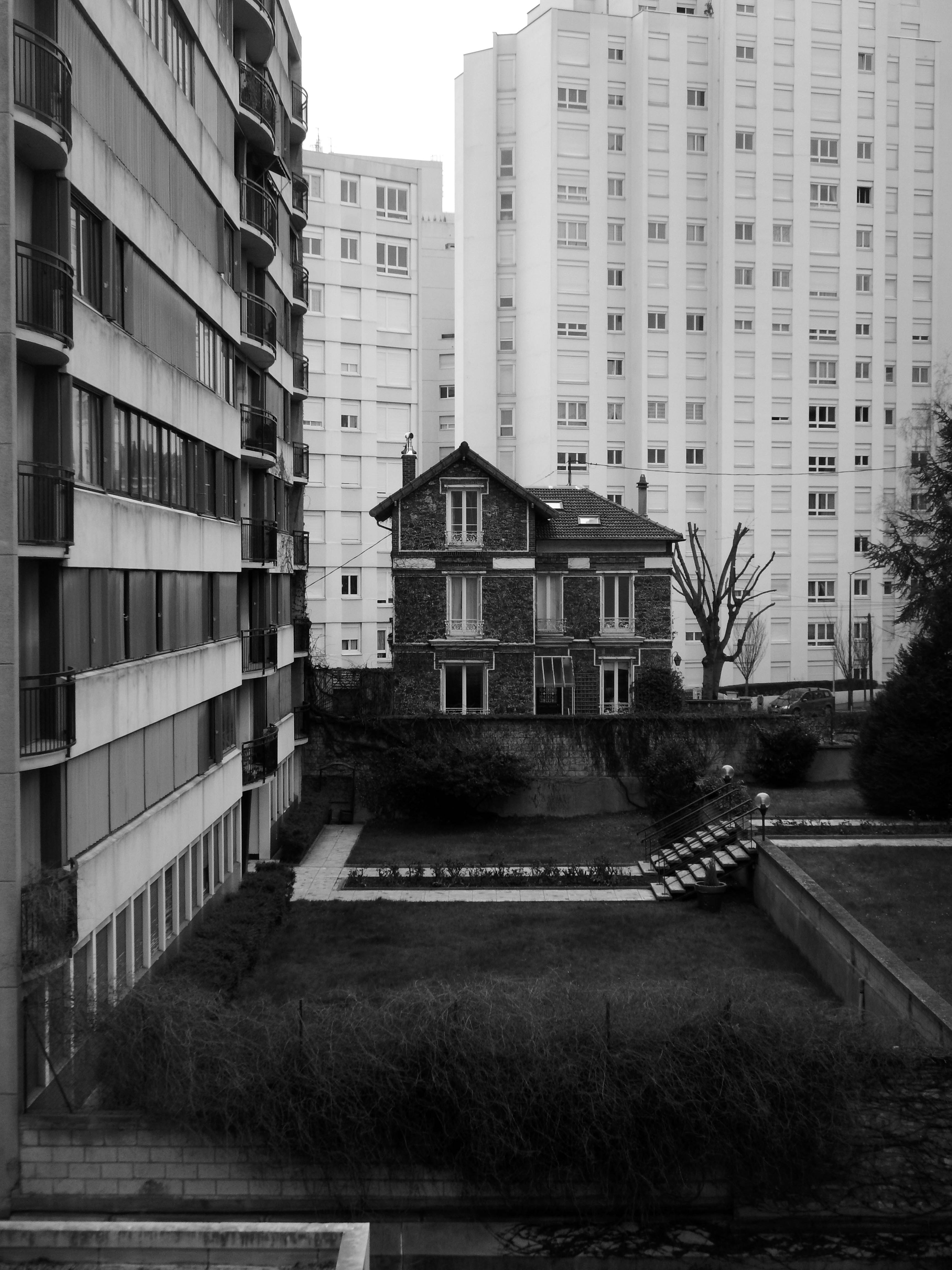 Old small house isolated by tall buildings in an urban context of Paris suburbanization, near the Pasteur Avenue, in the city of Vanves, French town of department of Hauts-de-Seine in region Île-de-France, located in the southwest of Paris near the ring road, photographed in March 2016.